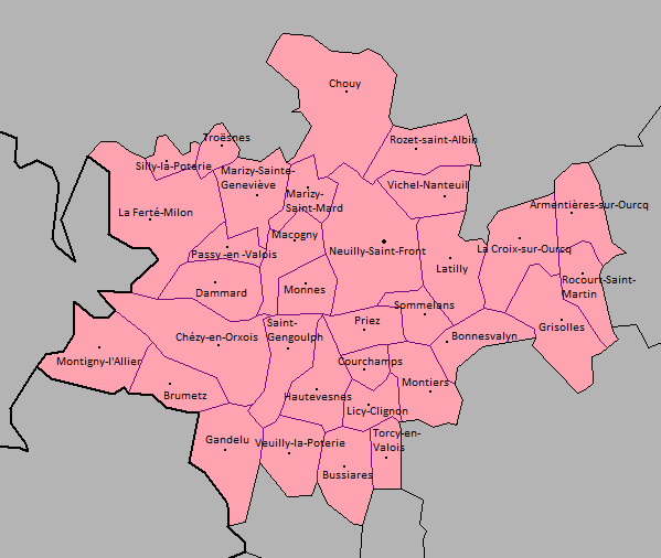 Maps of municipality of canton of Neuilly-Saint-Front